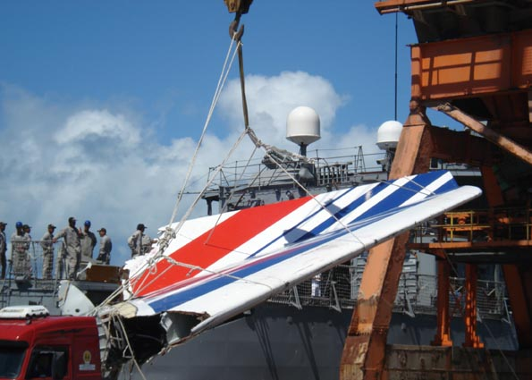 Recife - The frigate Constituição arrives at the Port of Recife, transporting wreckage of the Air France Airbus A330 that was involved in an accident on 31 May 2009.